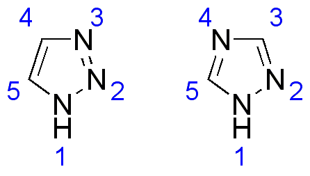 Chemical structure of the both of the isomers of triazoles: 1,2,3-triazole and 1,2,4-triazole.